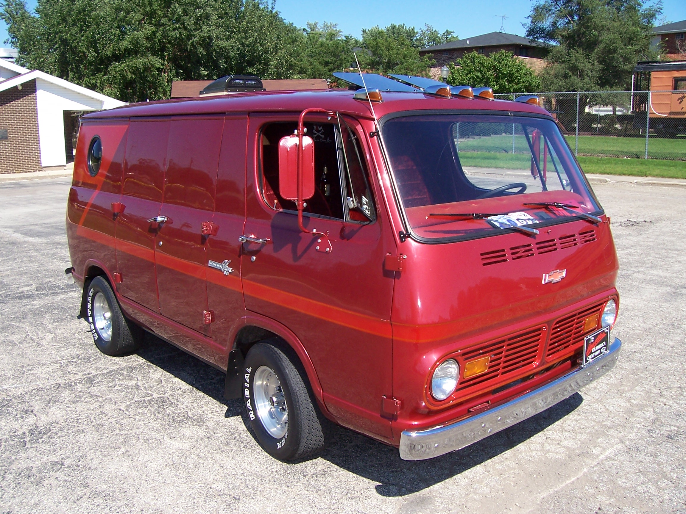 Right Front Quarter View of a 1967 Van Owned by Wolf of County Line Vans - Wisconsin